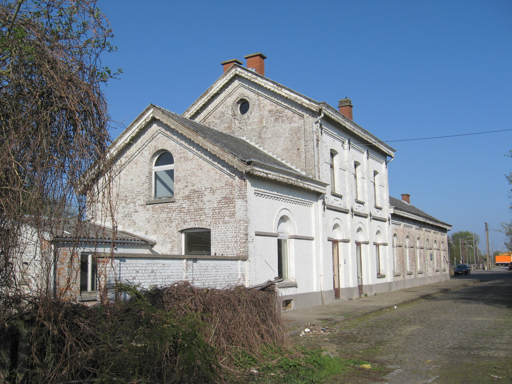 Train station of Fexhe-le-Haut-Clocher, Liège, Belgium